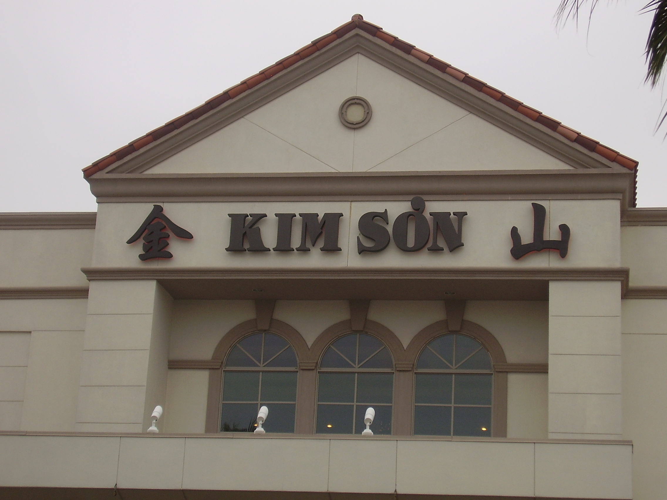 Kim Sơn in Chinatown